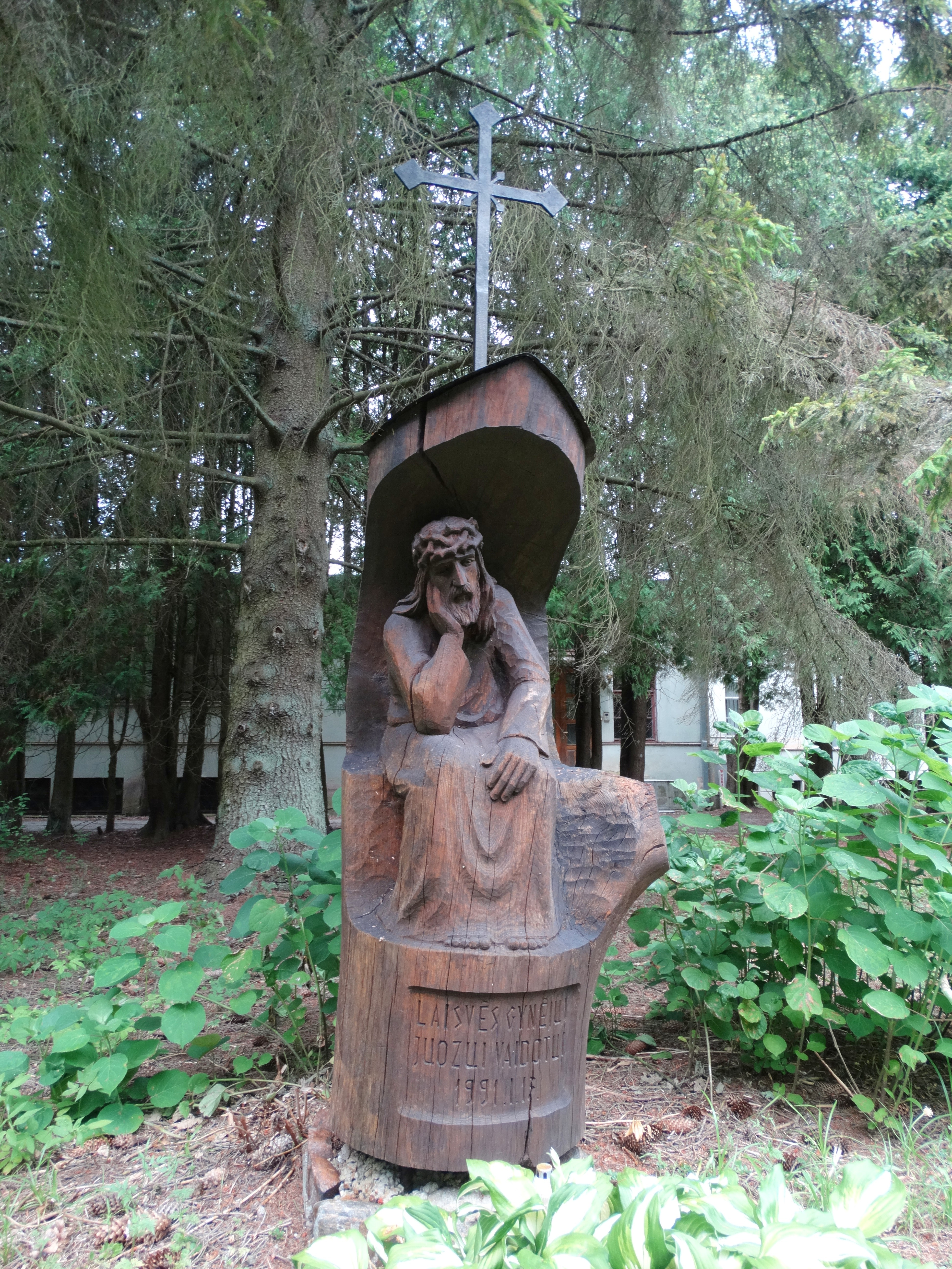 Sitkūnai, Pensive Christ in memory of Juozas Vaidotas, Kaunas district. Lithuania